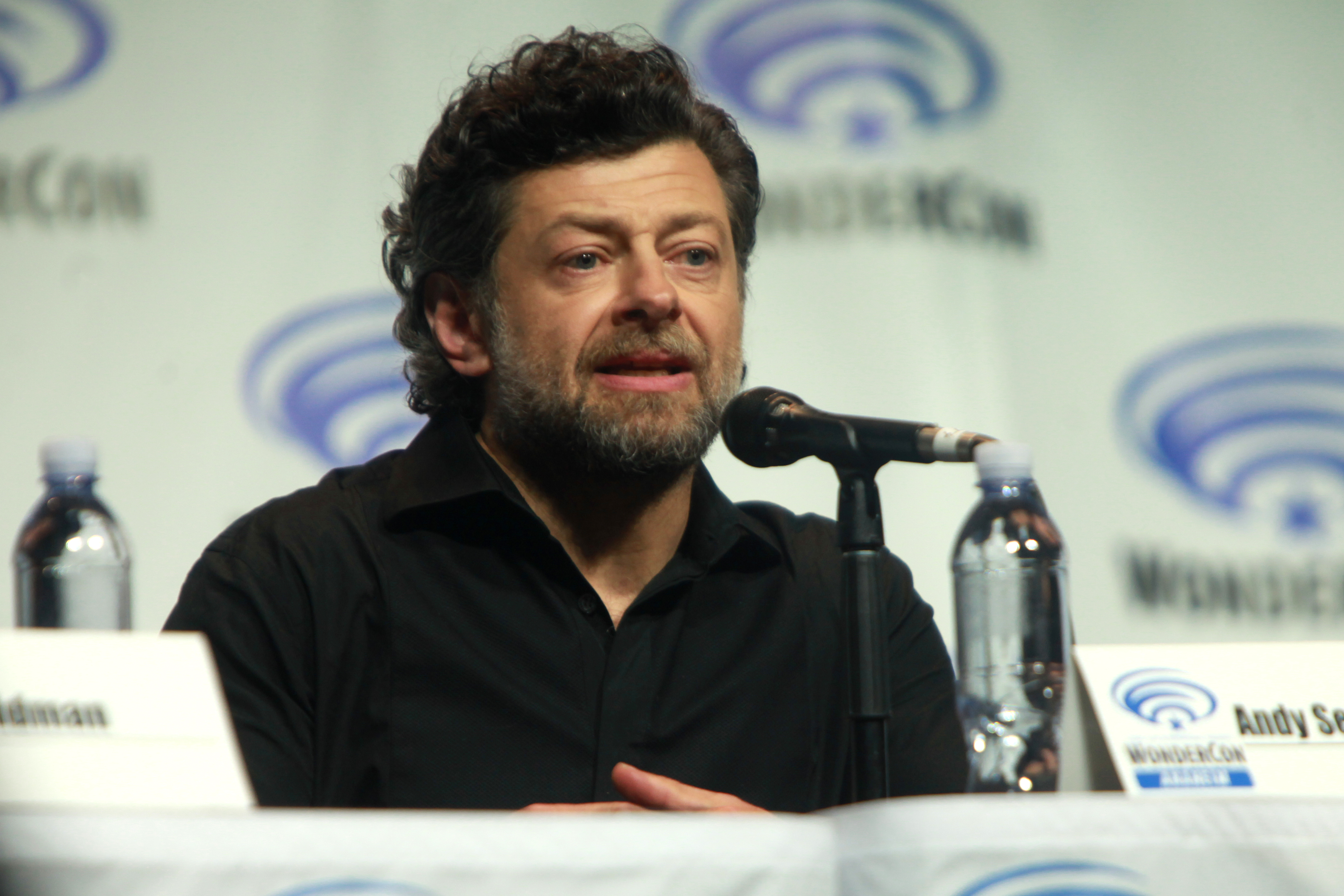 Andy Serkis speaking at the 2014 WonderCon, for "Dawn of the Planet of the Apes", at the Anaheim Convention Center in Anaheim, California.